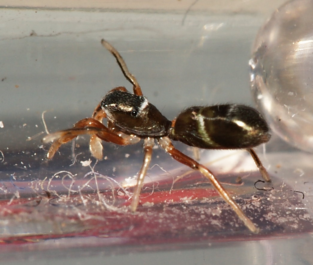 Synageles venator caught in Cologne Zoo, Germany.